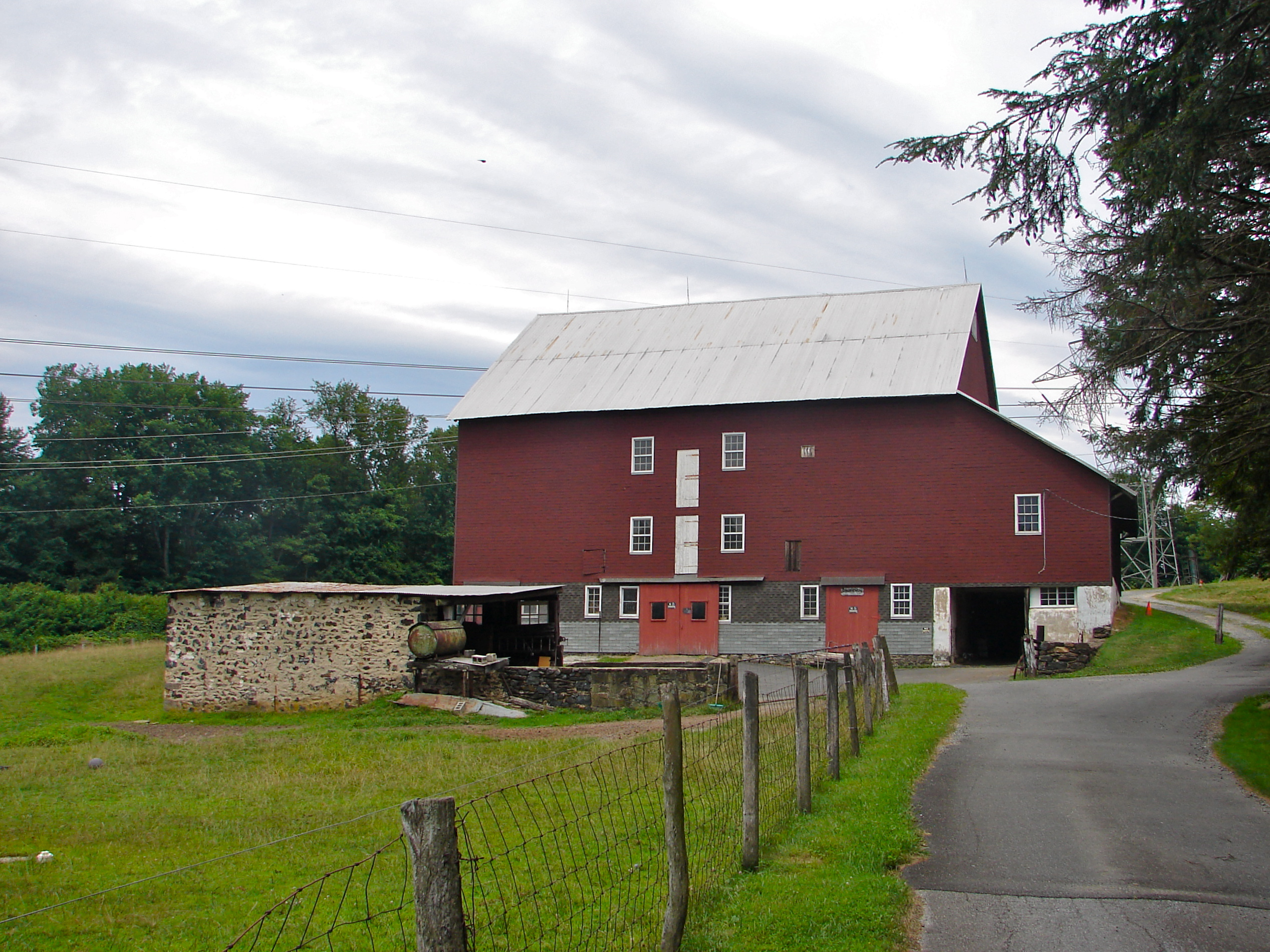 Barn at Kuerner Farm, named a National Historic Landmark in July 2011. At 14 Ring Road, in Chadds Ford Township, Delaware County, Pennsylvania. The Kuerner Farm was the inspiration for more than 1,000 Wyeth paintings over a 64-year period.